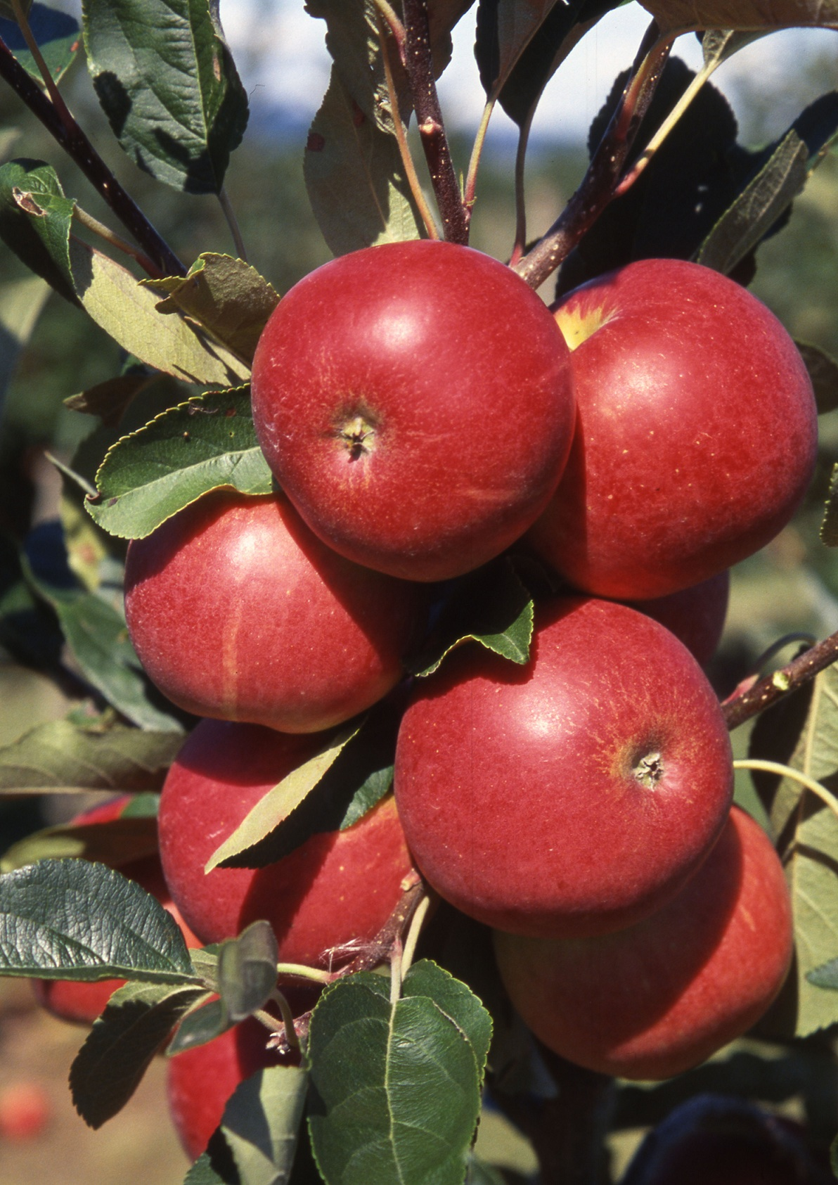 Apple Scrumptious when ripe and ready to eat